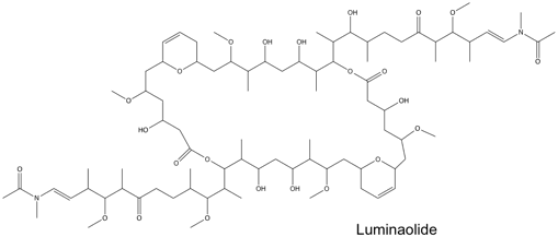 structure